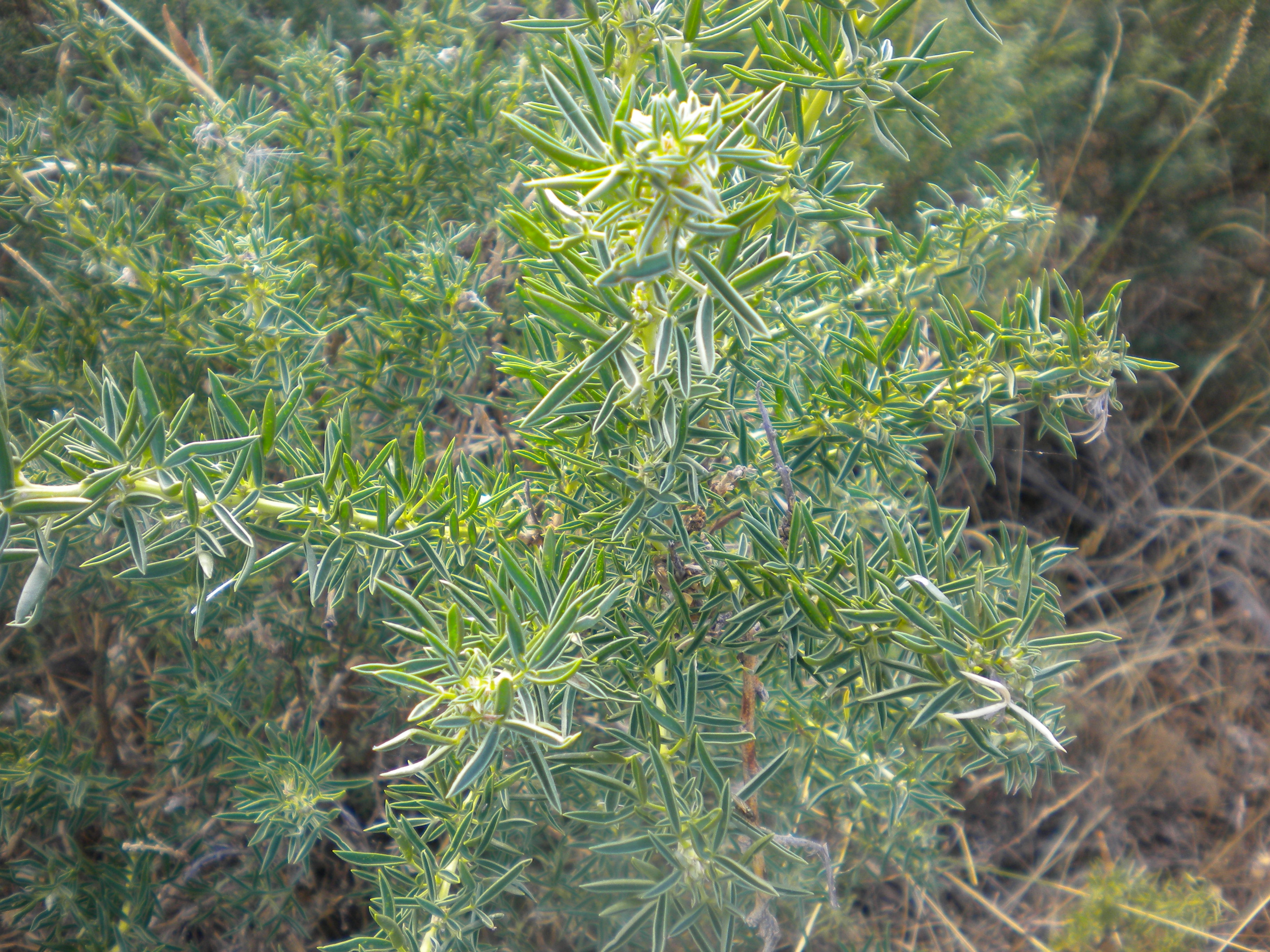 Adenocarpus hispanicus.